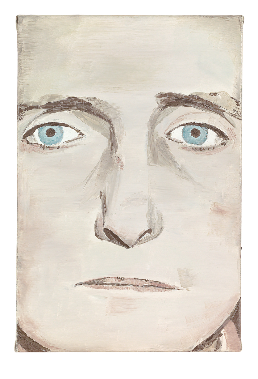 The Diagnostic View IV, 1992. Oil painting on canvas. 57 × 38.2 cm, 22 1⁄2 × 15 1⁄8 inches.